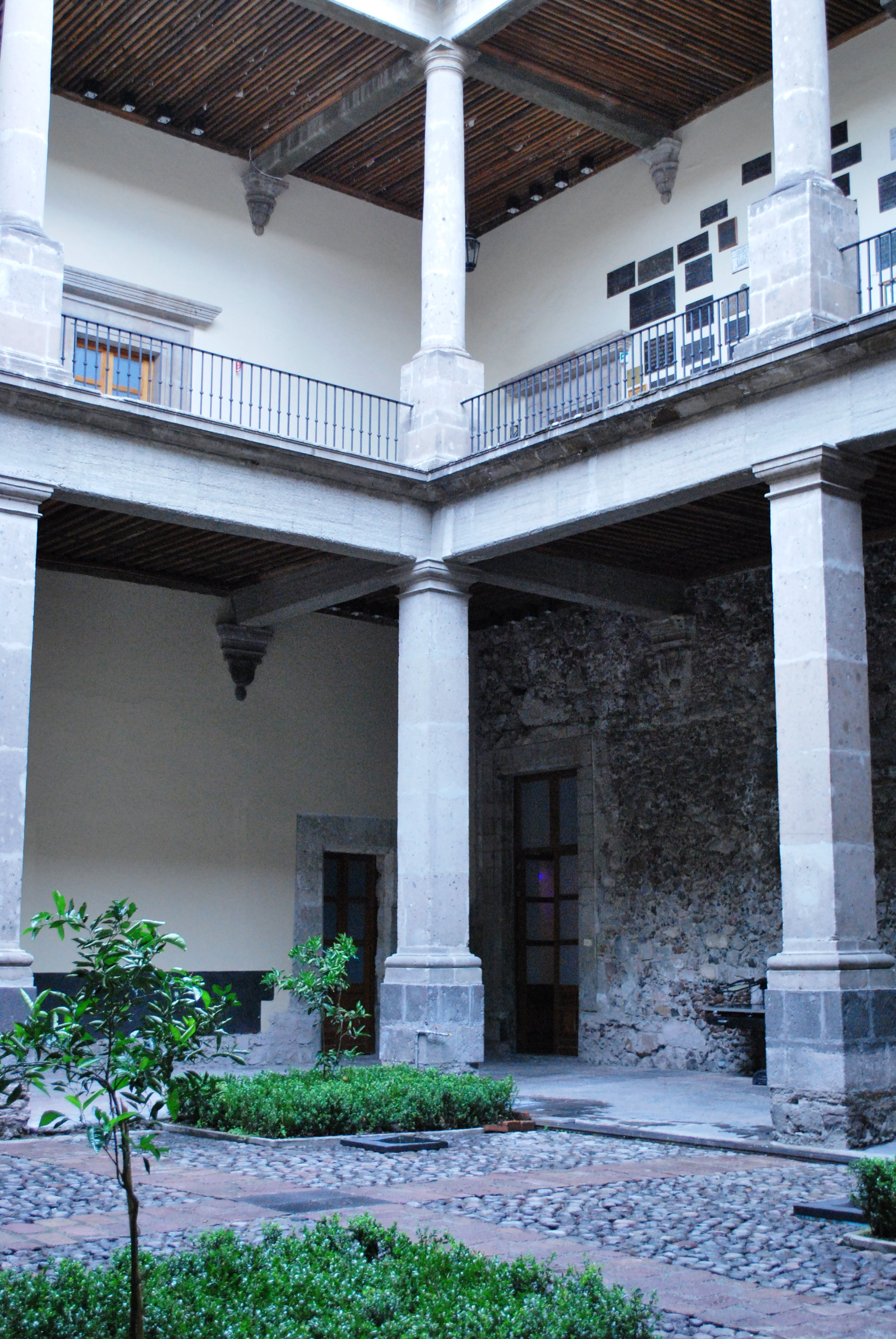 Back patio of the Palace of Inquisition - Museum of Mexican Medicine located in the historic center of Mexico City. this section used to be a jail.